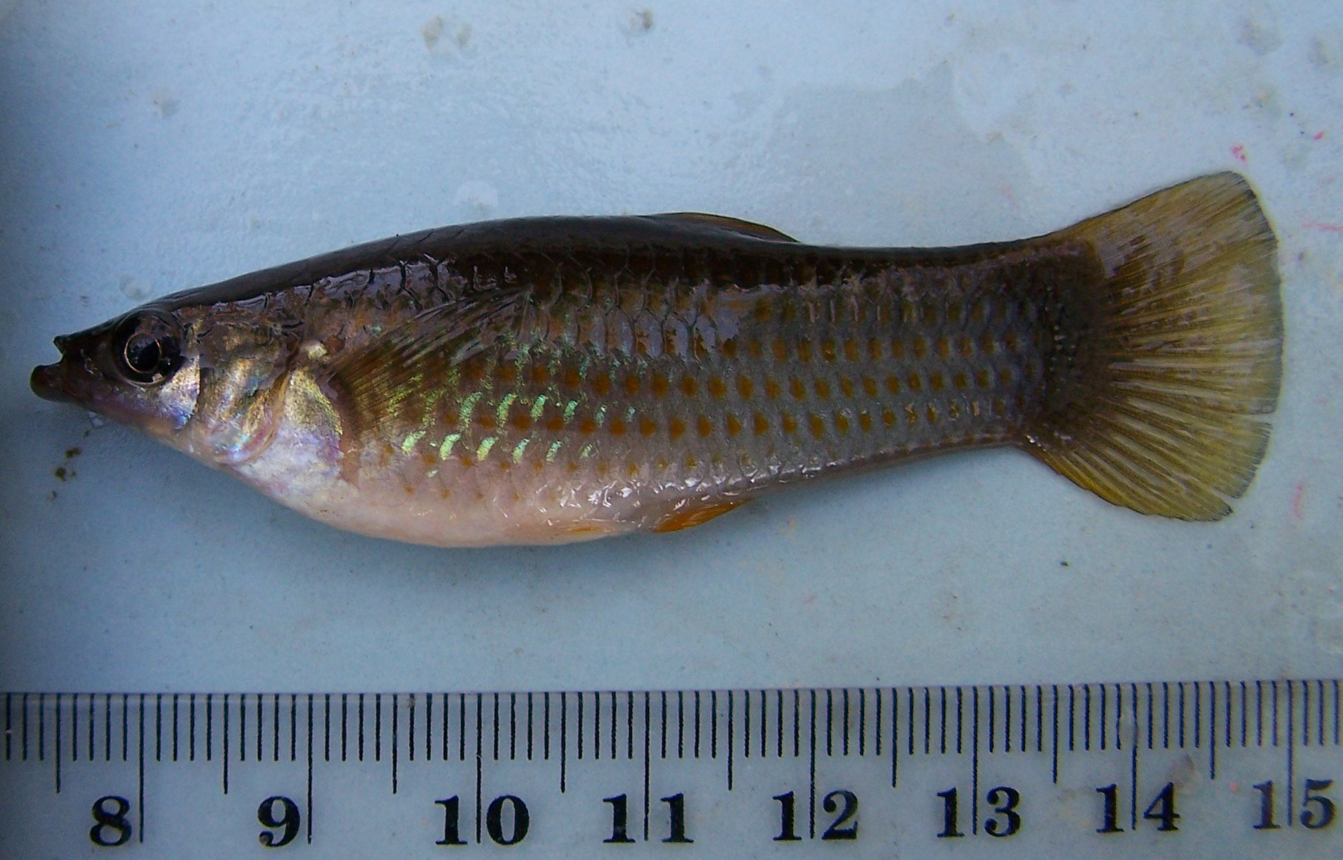 A female Poecilia gillii molly captured in the Guanacaste Province of Costa Rica.